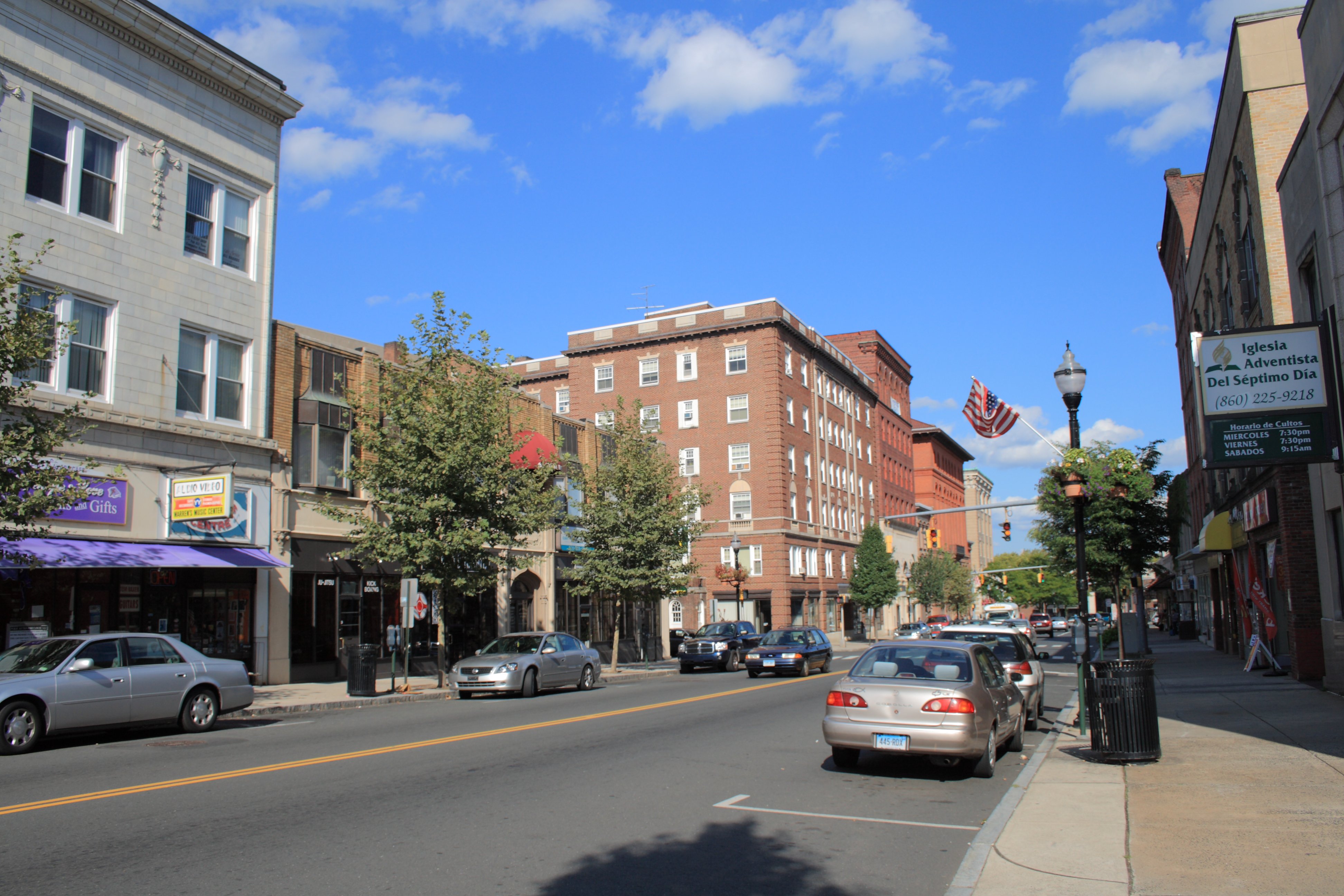 Eastward down West Main Street in New Britain Connecticut - OpenStreetMap (Info)